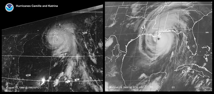 Comparison of Hurricanes Camille and Katrina near landfall along the Louisiana coast.